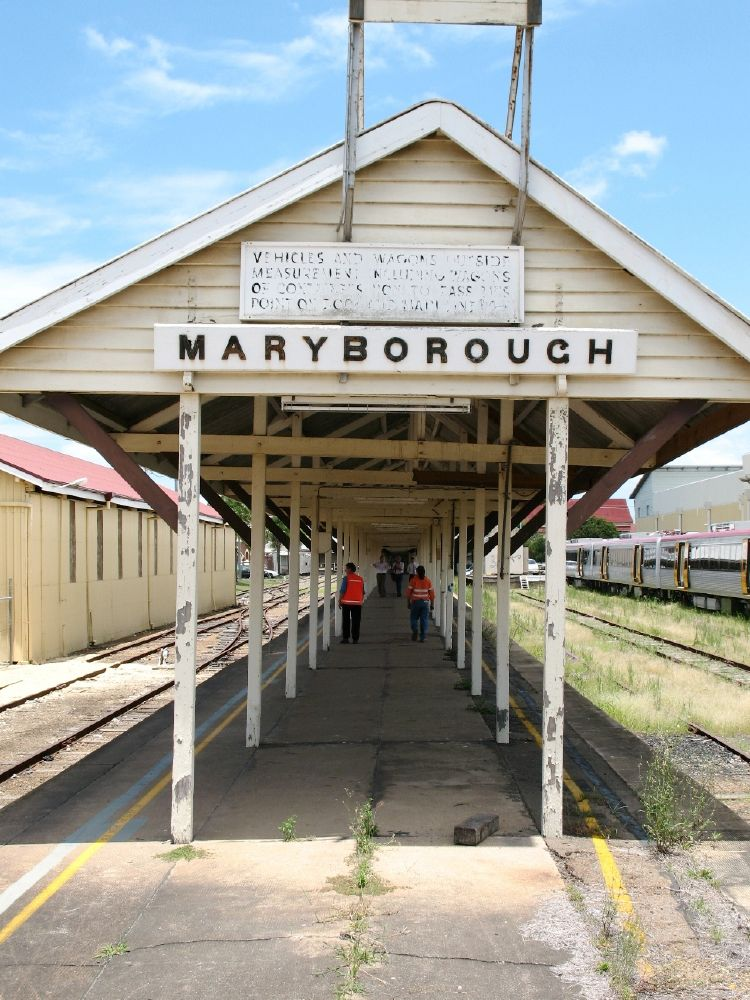 Maryborough Railway Station Complex, Platform from NW (2007)